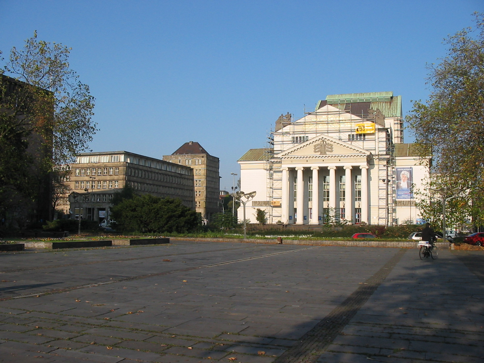 Theater Duisburg, photo taken from König-Heinrich-Platz